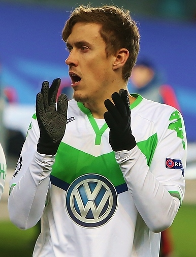 Max Kruse